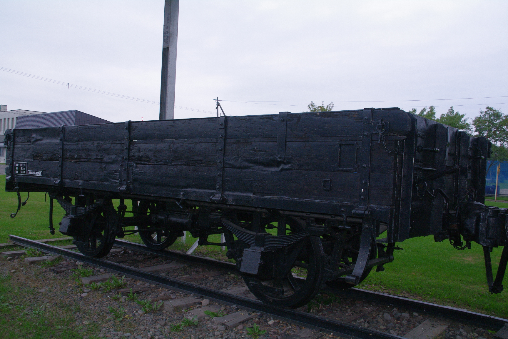 Hokkaido takushoku railway open wagon in Shikaoi town, Hokkaido.